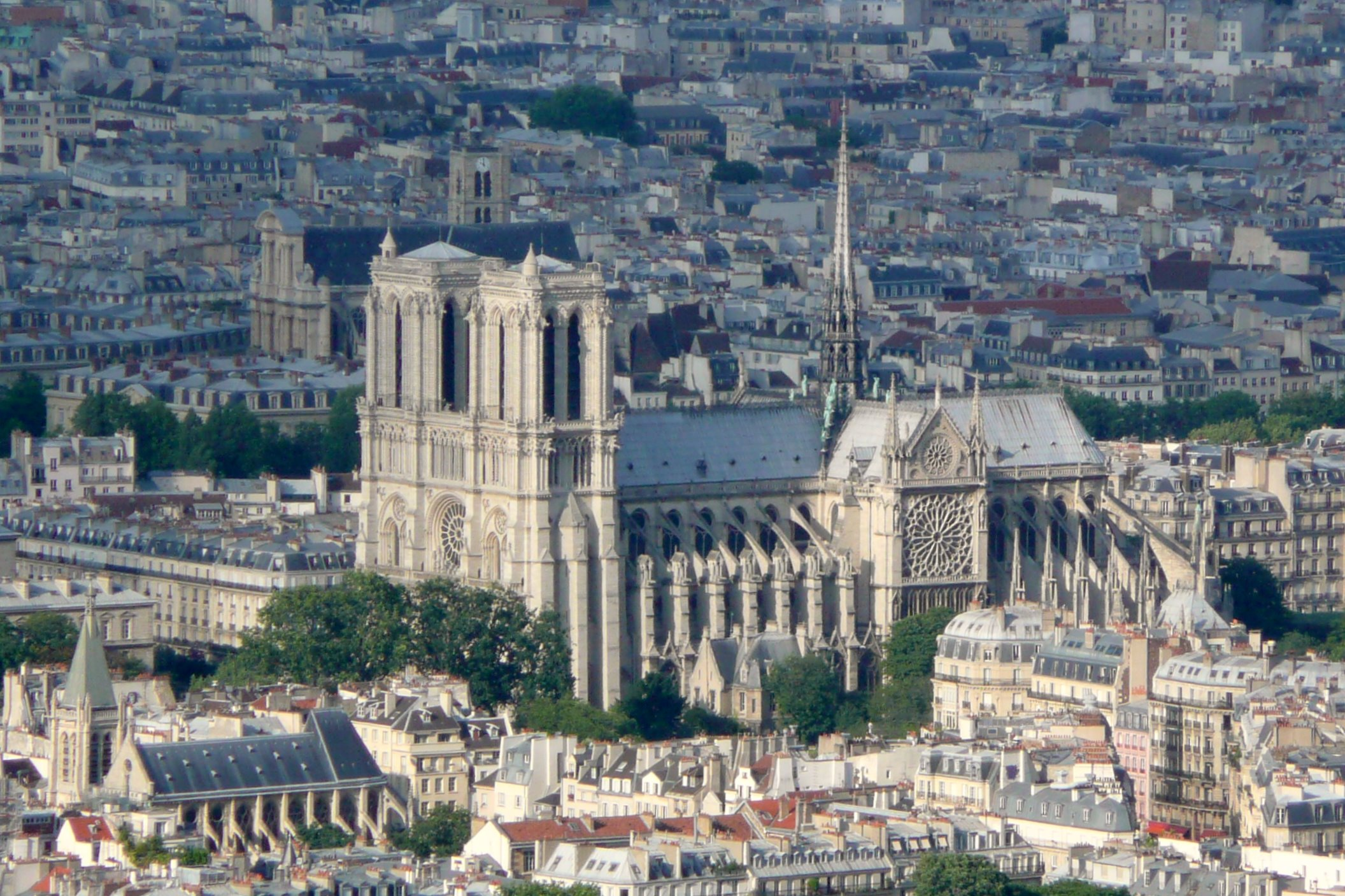 Notre Dame de Paris , France from the summit of the Montparnasse Tower